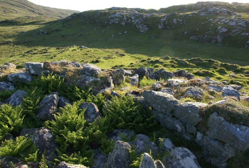 Dun a' Chaolais, a broch on Vatersay, Outer Hebrides, Scotland